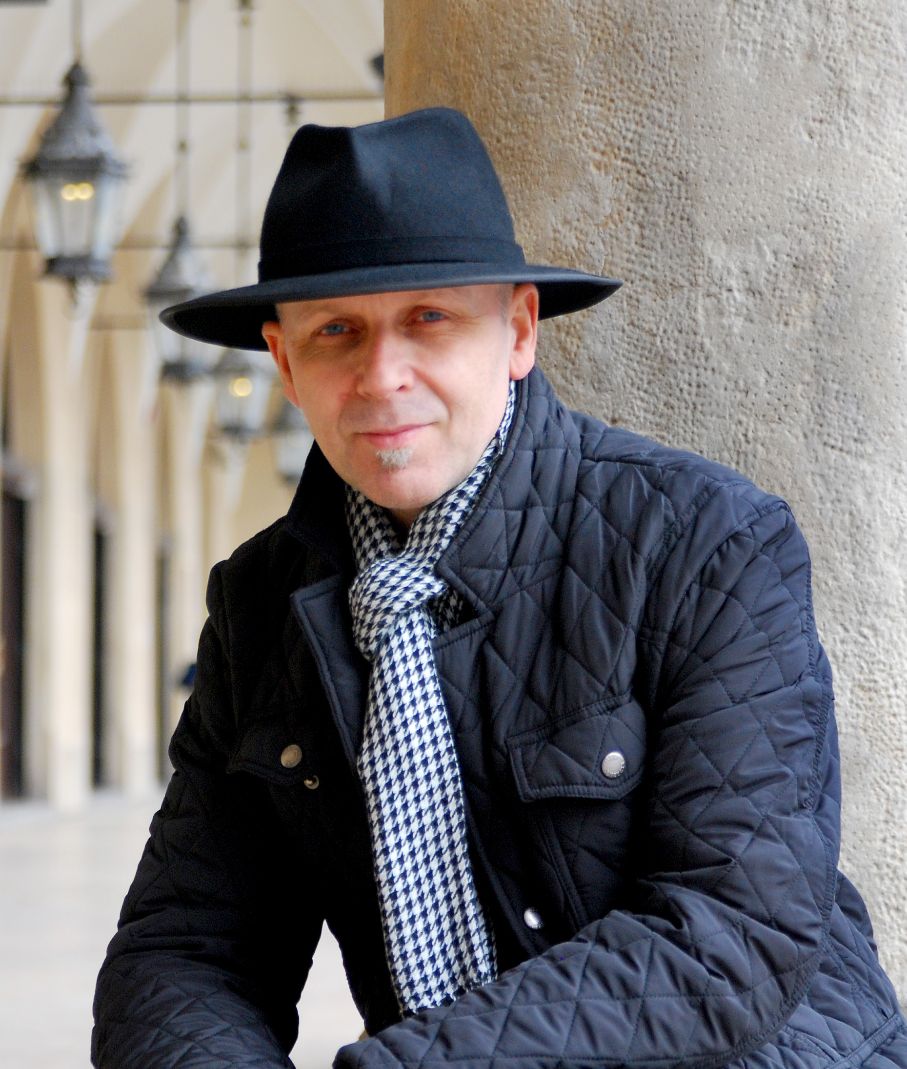 Jacek Kucaba - Polish sculptor, president of the Association of Polish Artists and Designers.